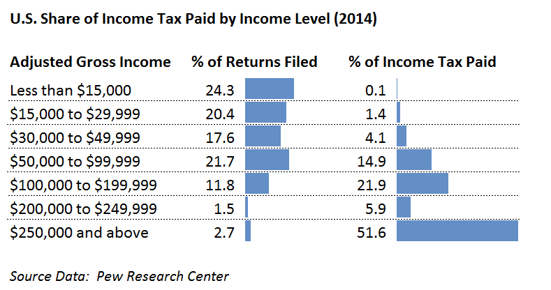 Chart based on similar Pew Center chart